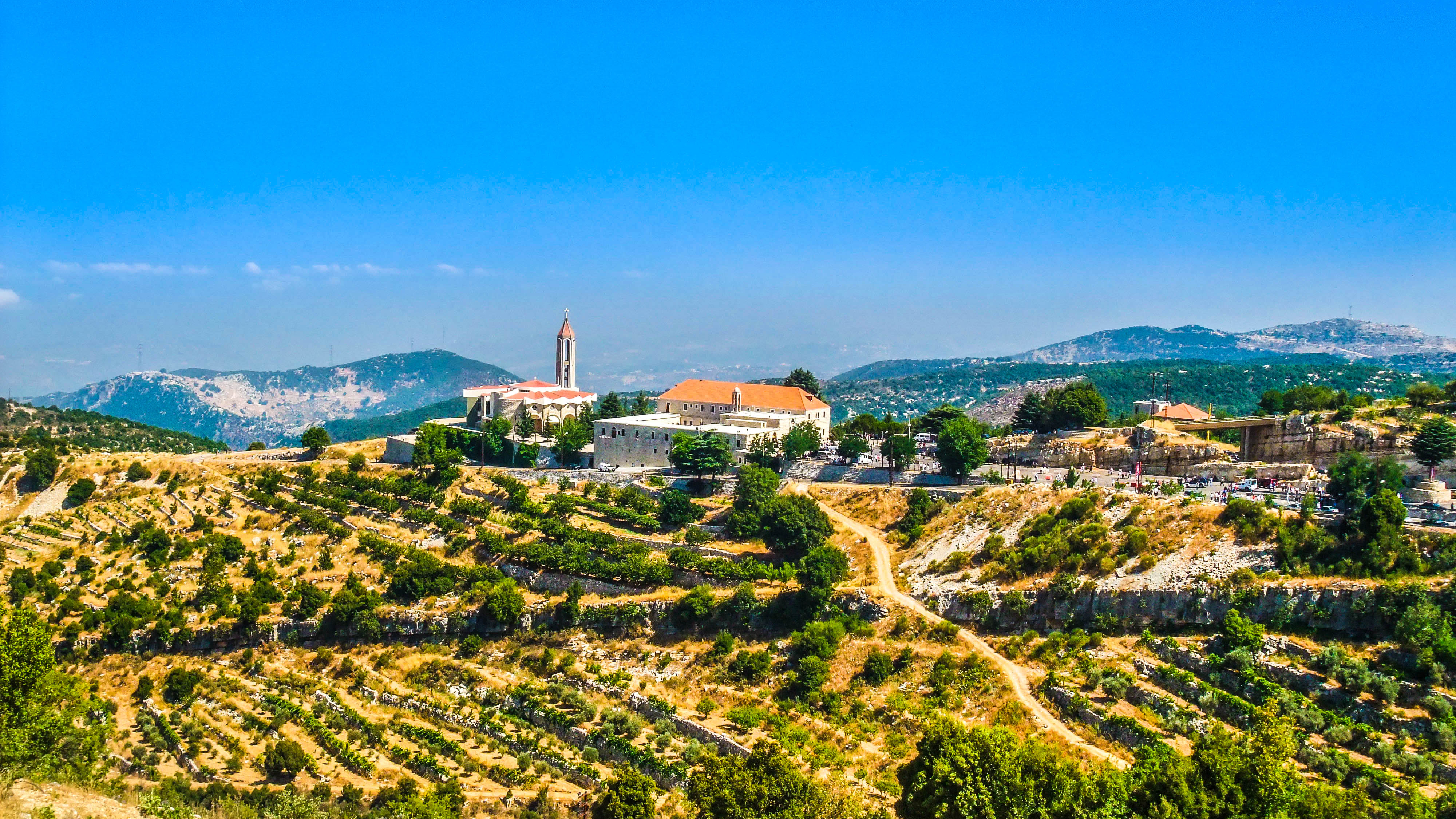 Panoramic Photo of The Church and Monastry of Saint Charbel Annaya - Lebanon